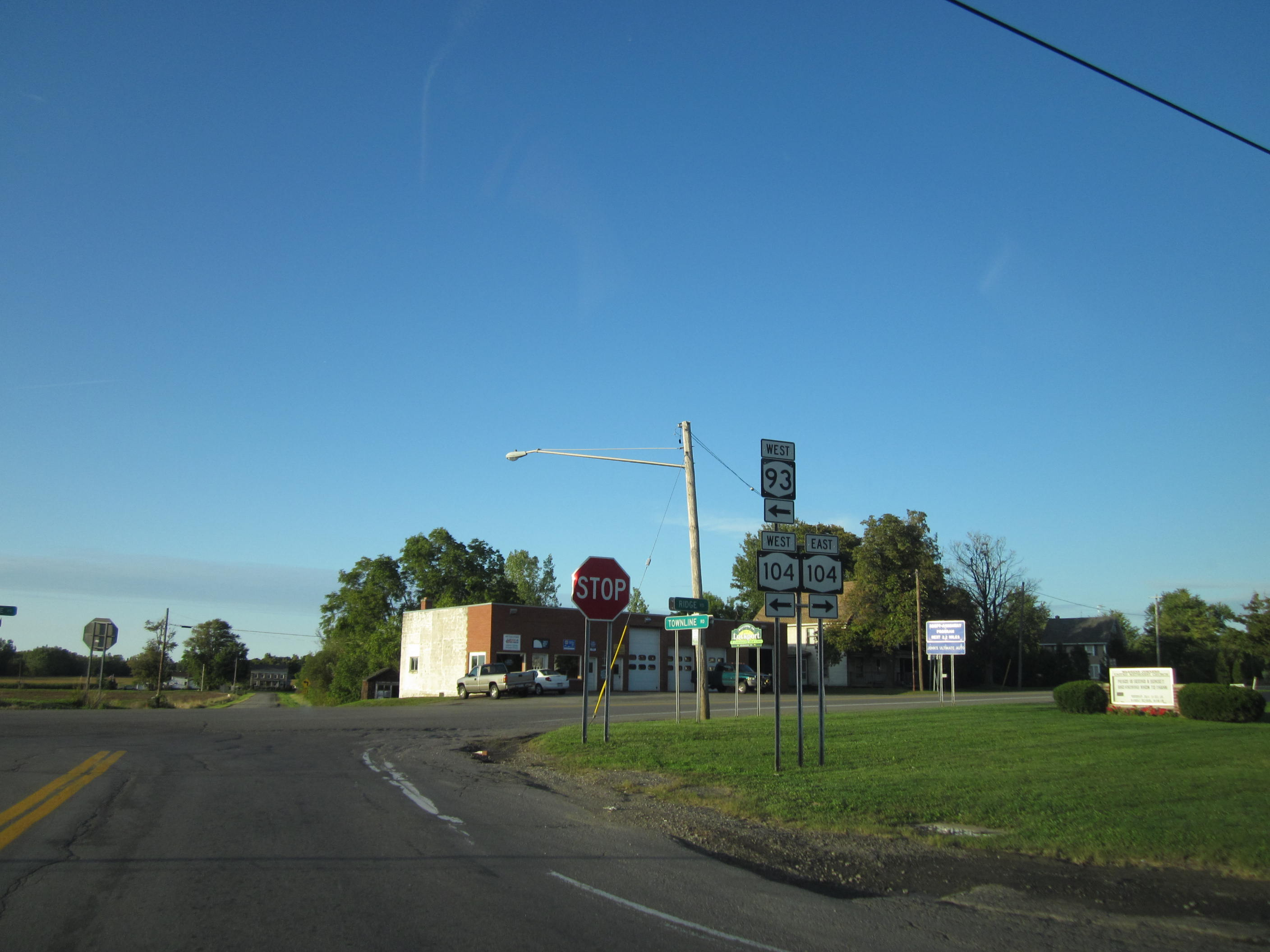 New York State Route 93 westbound at a junction with New York State Route 104 in Warrens Corners.